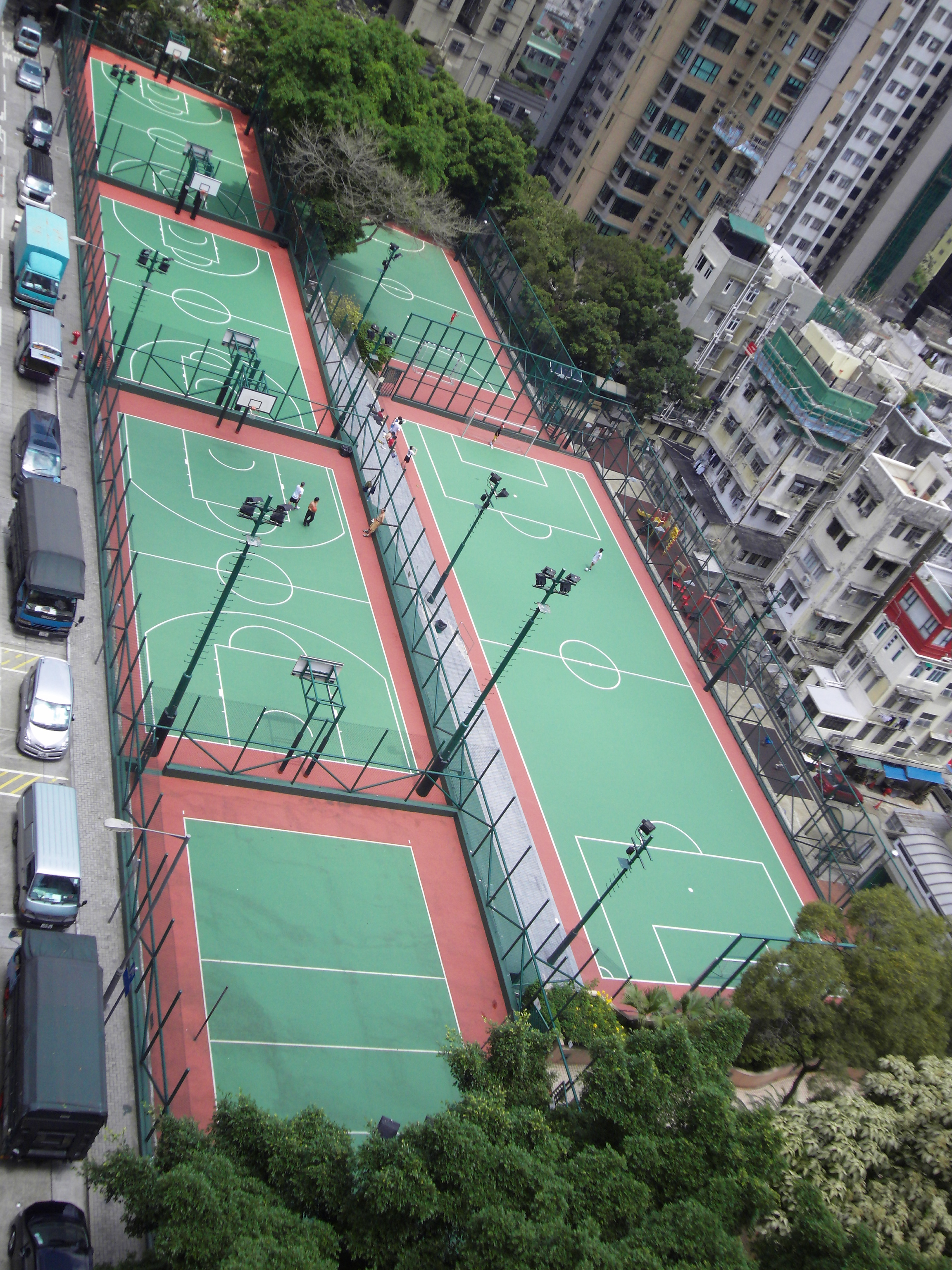 Blake Garden, Sheung Wan, Hong Kong